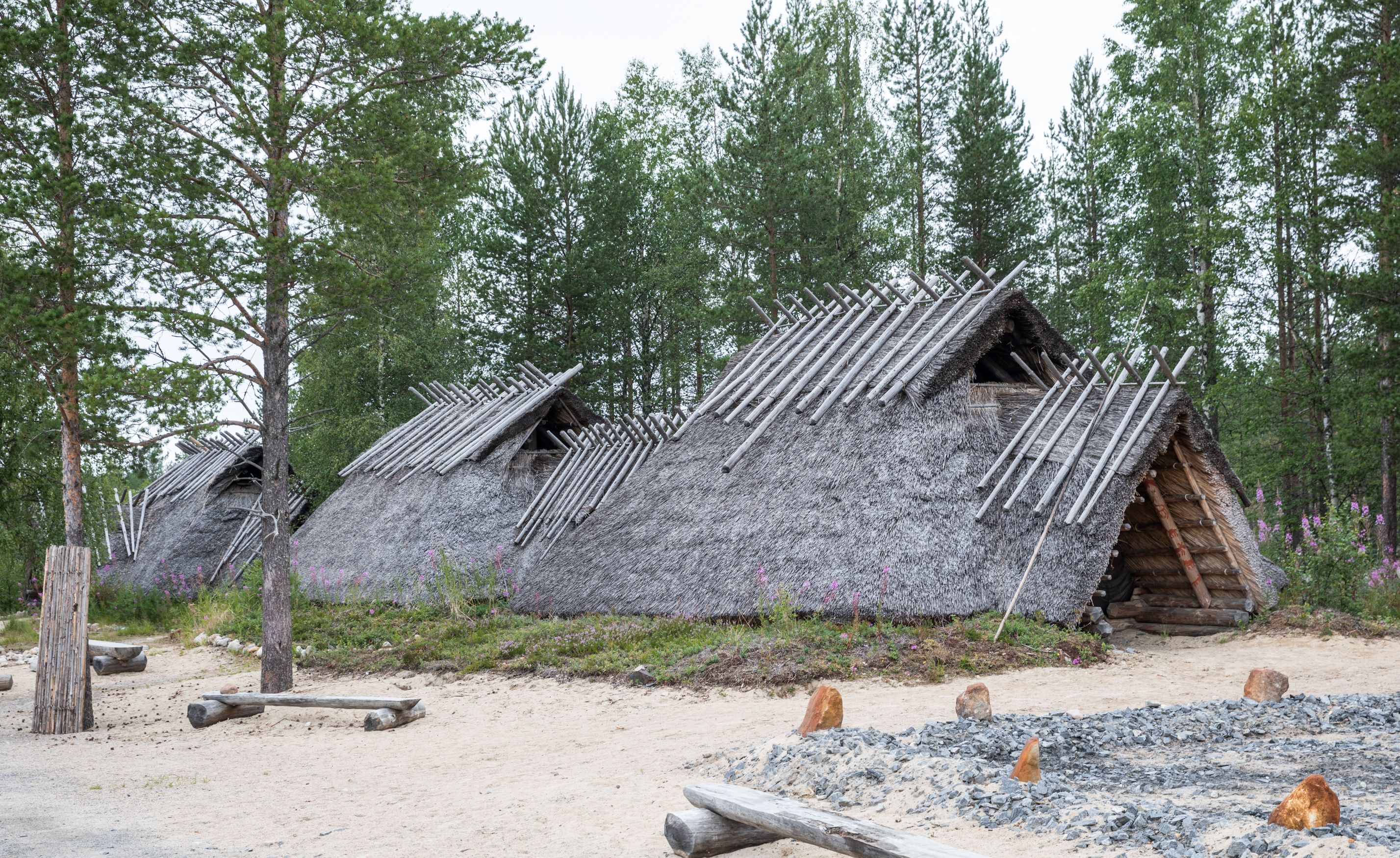 Stone Age dwelling at Kierikki Stone Age Centre